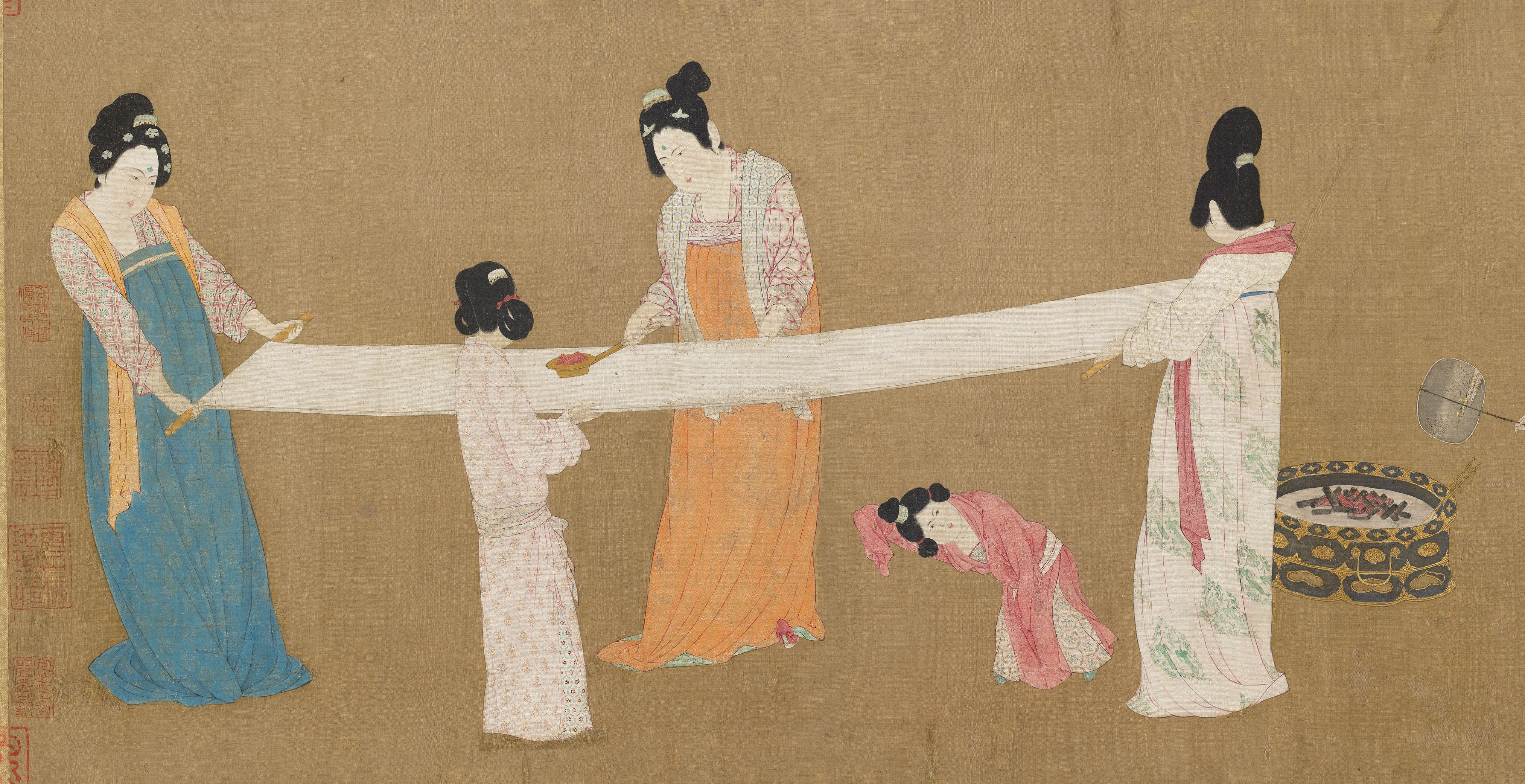 Court Ladies Preparing Newly Woven Silk